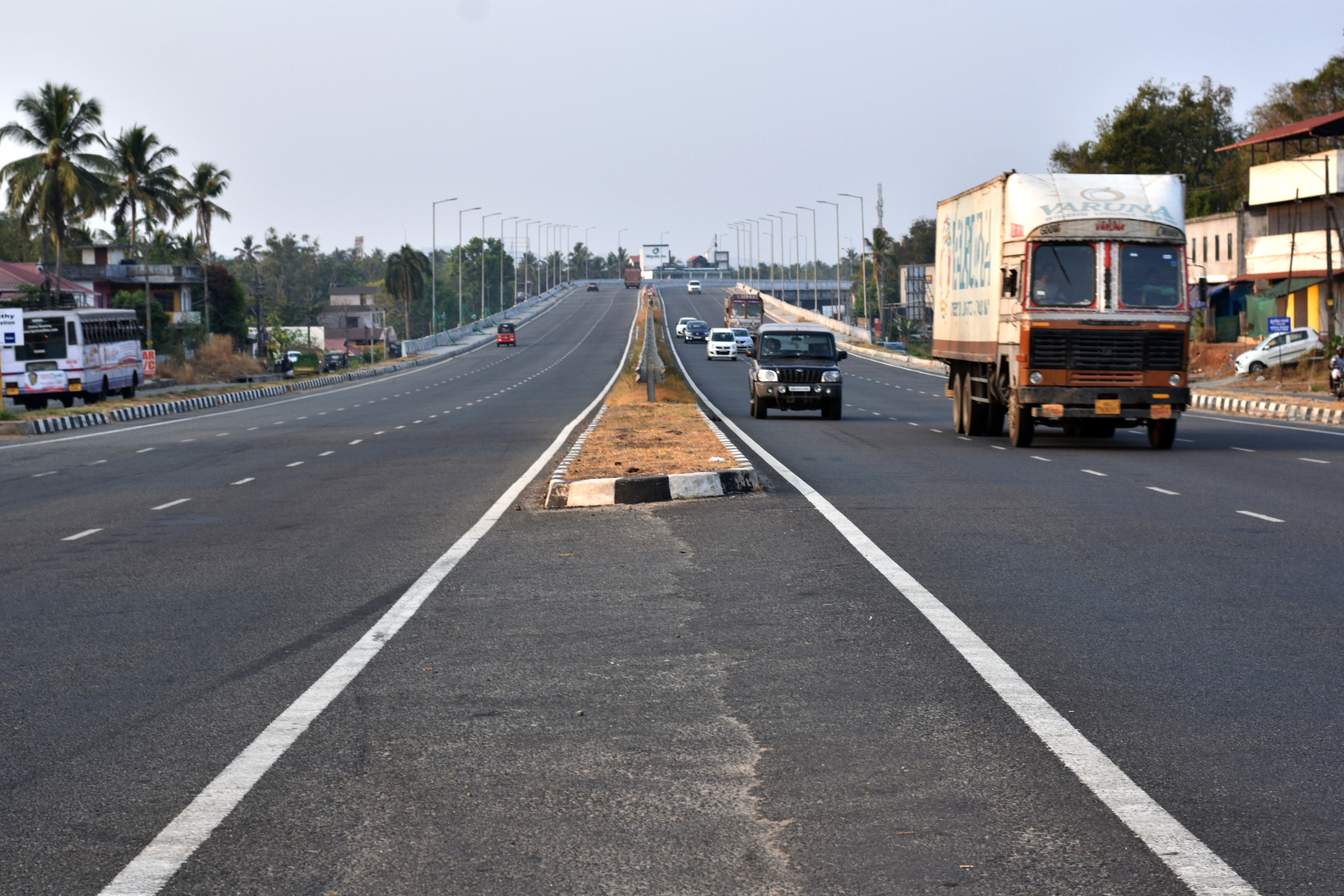 Mannuthy Bypass Flyover in thrissur. NH544